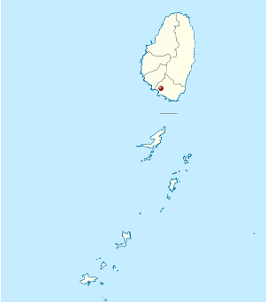 Map of Saint Vincent and the Grenadines with a red dot depicting the location Kingstown